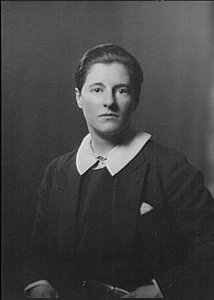 Arnold Genthe (1869-1942)/LOC agc.7a11495. Miss Marion Carstairs, 1928 or 1929